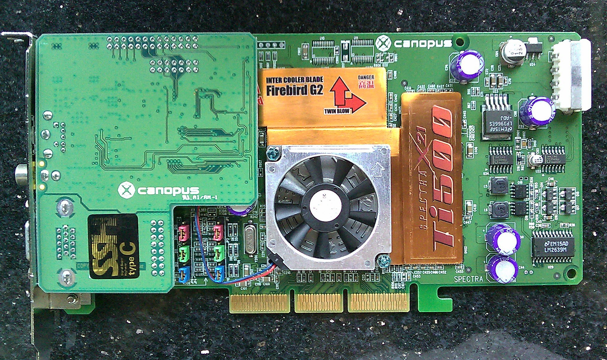 Canopus SPECTRA X21 Graphic Card